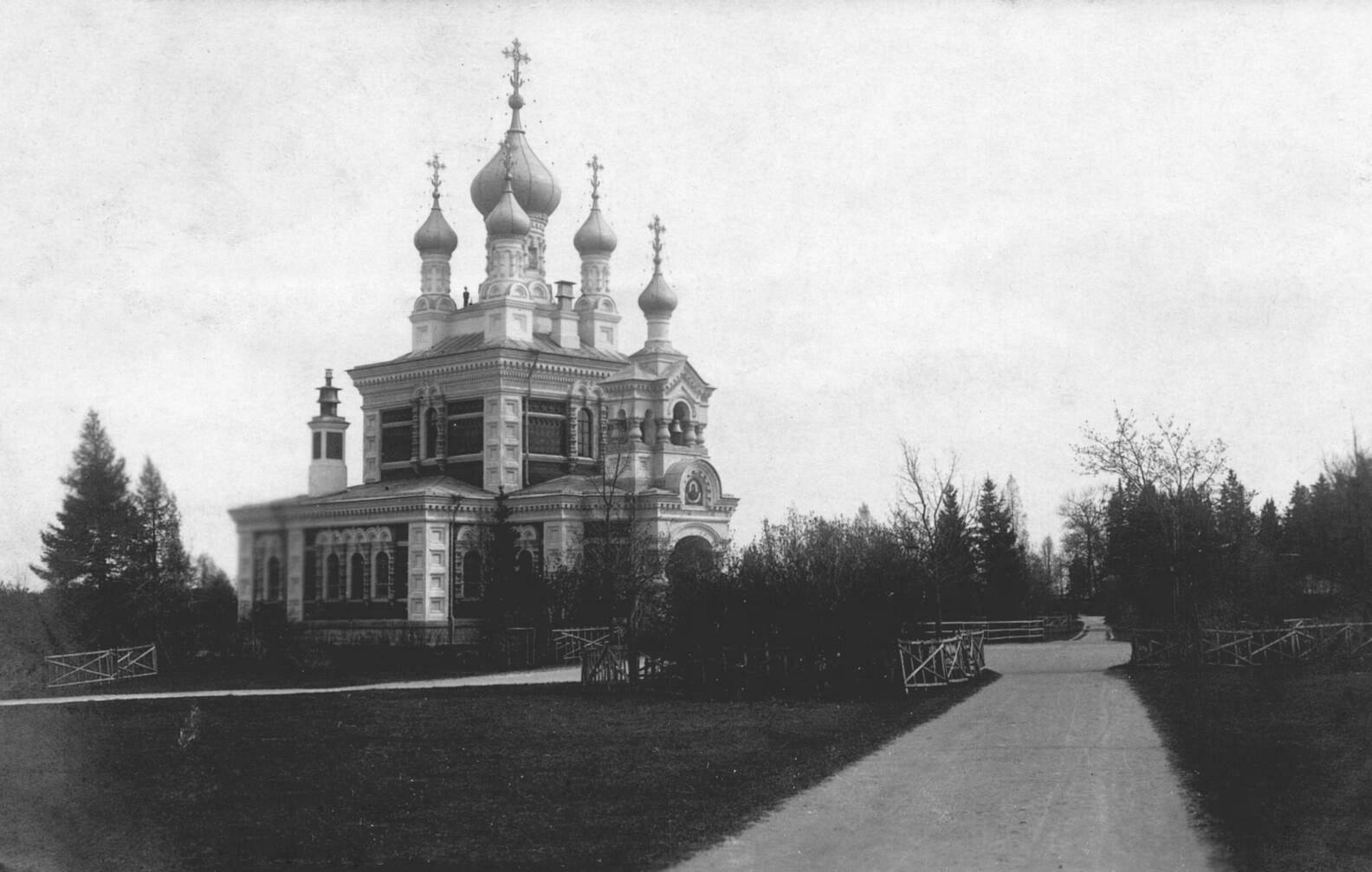 Gatchina (Russia)